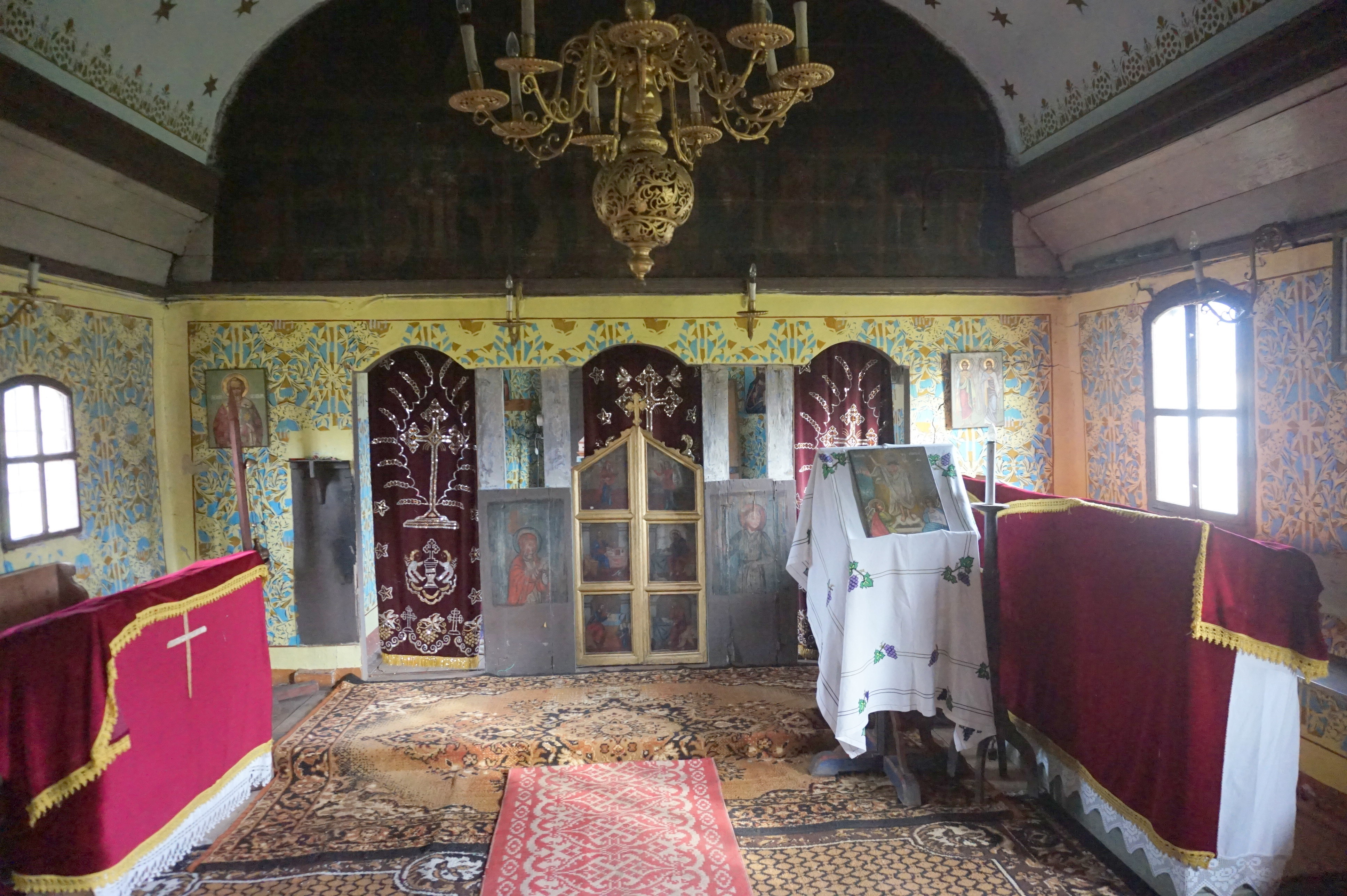 Wooden church in Arcalia, Bistrița-Năsăud County, Romania